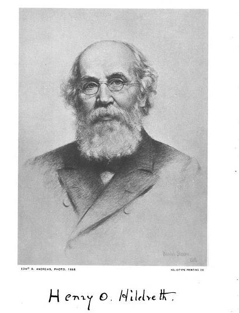 A depiction of Henry Orin Holdreth, from the Memoir of Henry Orin Hildreth by Erastus Worthington.